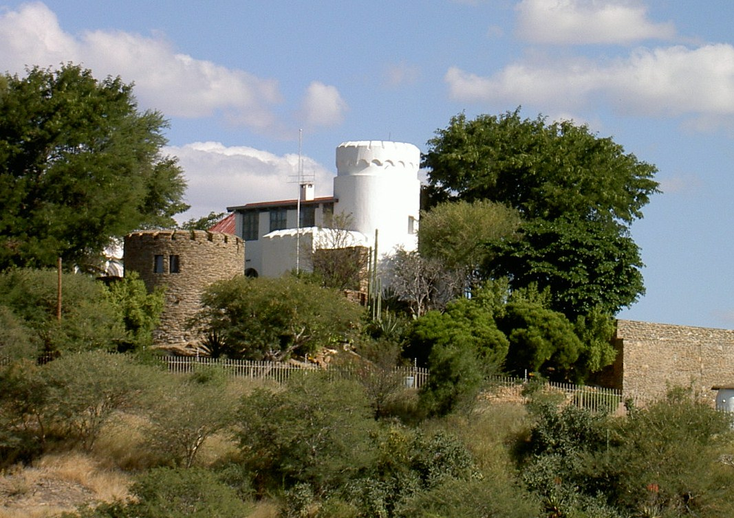 Schwerinsburg, near to Windhoek, Namibia